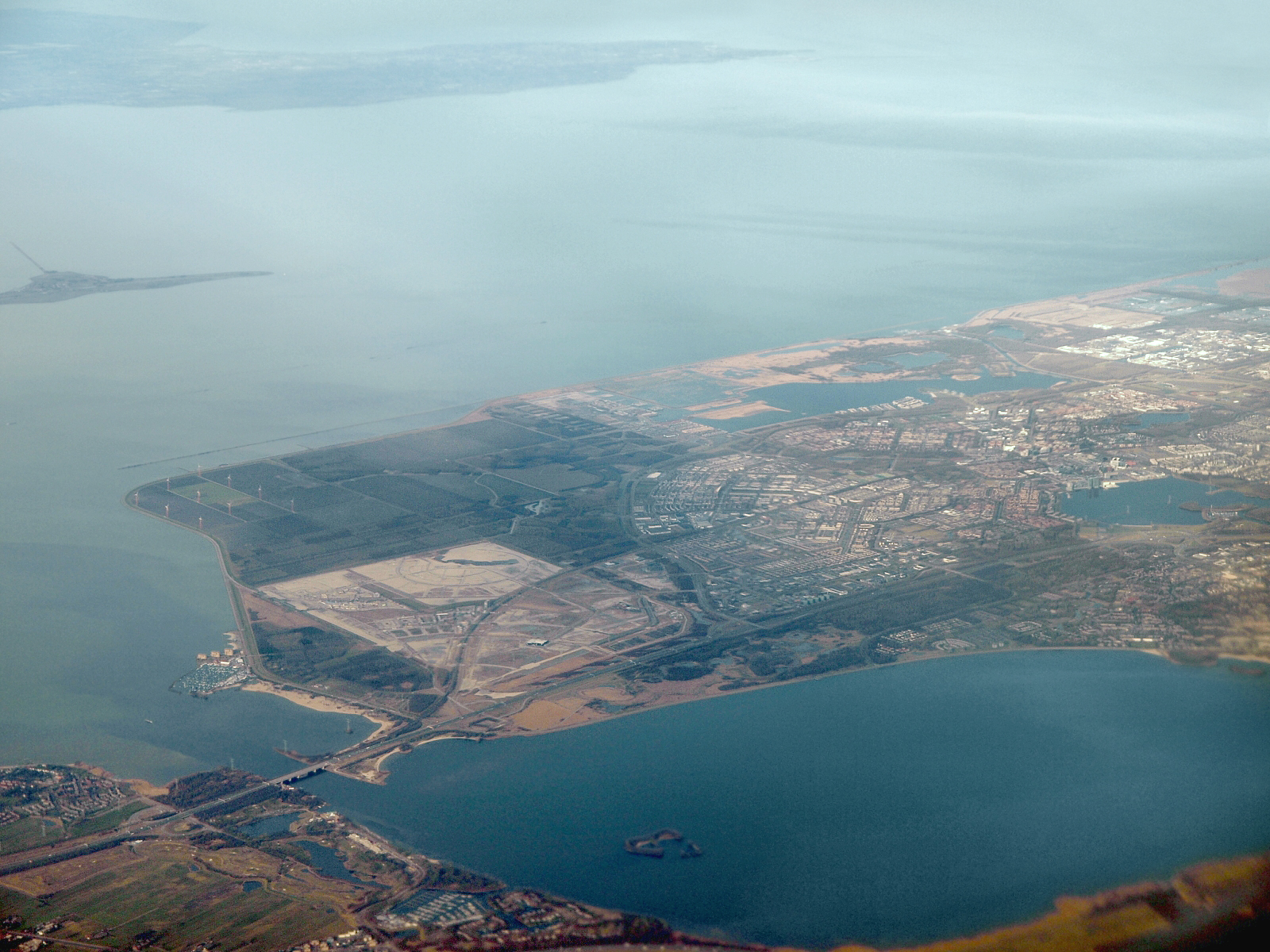 an artificial island in the netherlands. we usually pass flevoland when we fly to venice